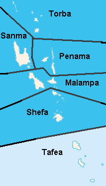 Province of Tafea (Vanuatu)